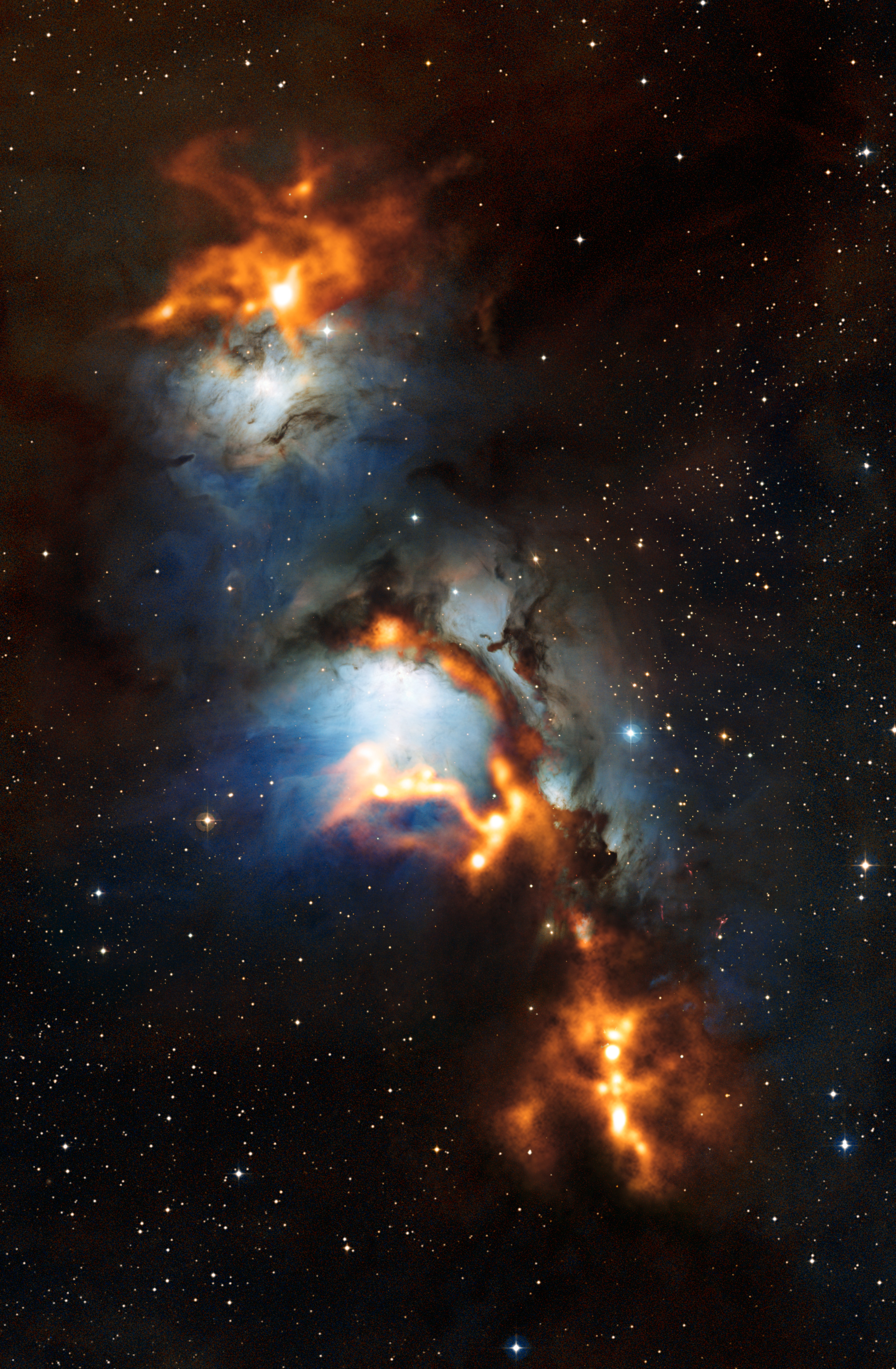 This image of the region surrounding the reflection nebula Messier 78, just to the north of Orion’s belt, shows clouds of cosmic dust threaded through the nebula like a string of pearls. The submillimetre-wavelength observations, made with the Atacama Pathfinder Experiment (APEX) telescope and shown here in orange, use the heat glow of interstellar dust grains to show astronomers where new stars are being formed. They are overlaid on a view of the region in visible light.